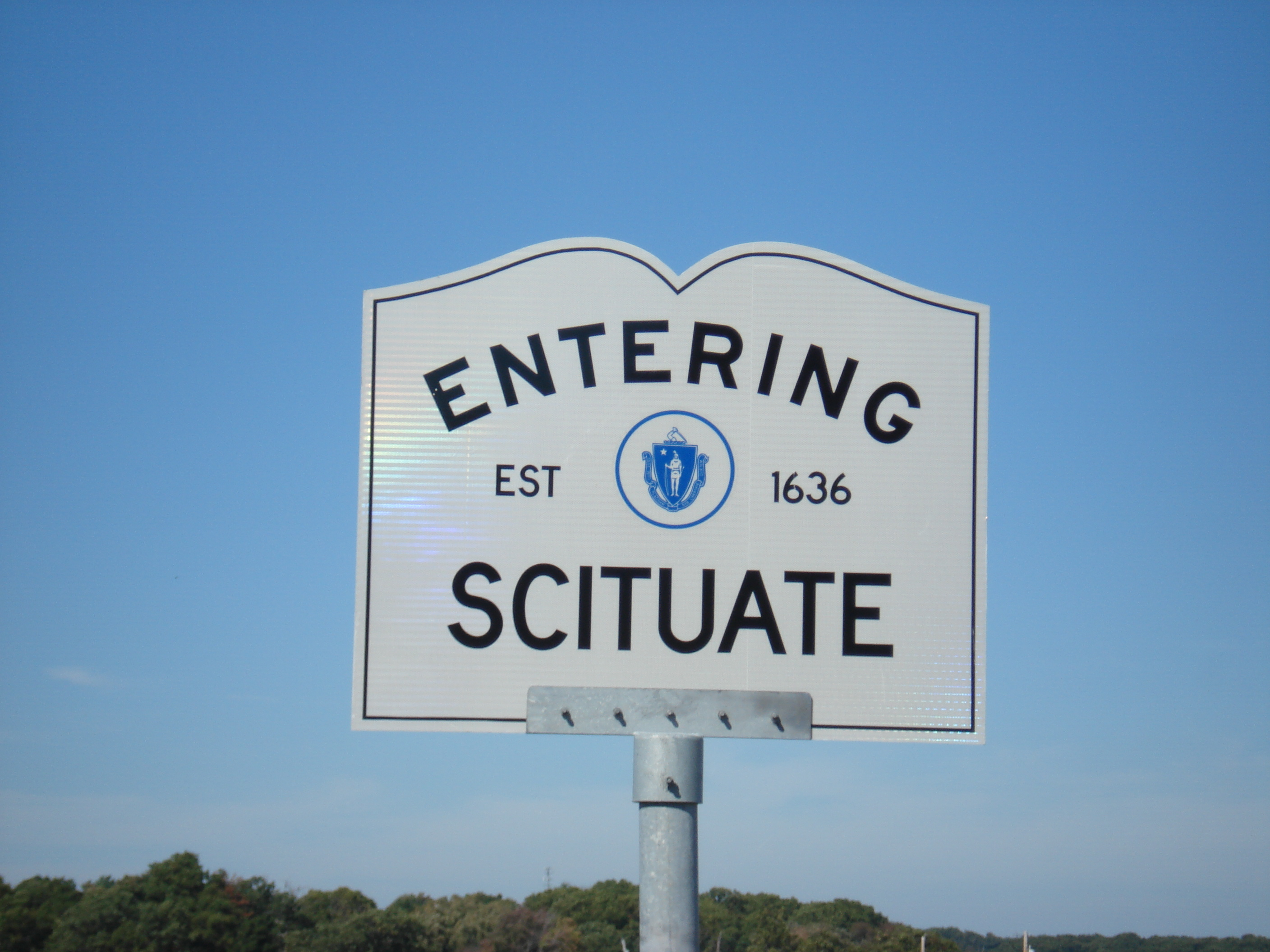 A road sign for the town line of Scituate, Massachusetts.